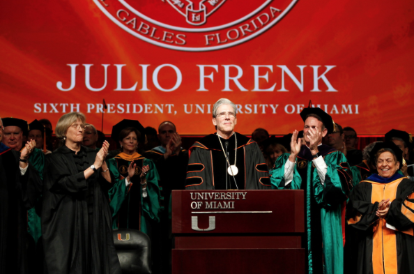 Julio Frenk is officially installed as the 6th president of the University of Miami on January 29, 2016